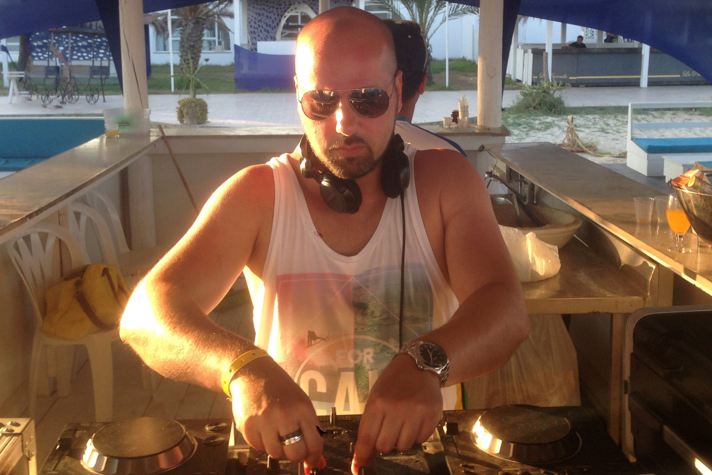 Ben Delay in Tunisia 2015